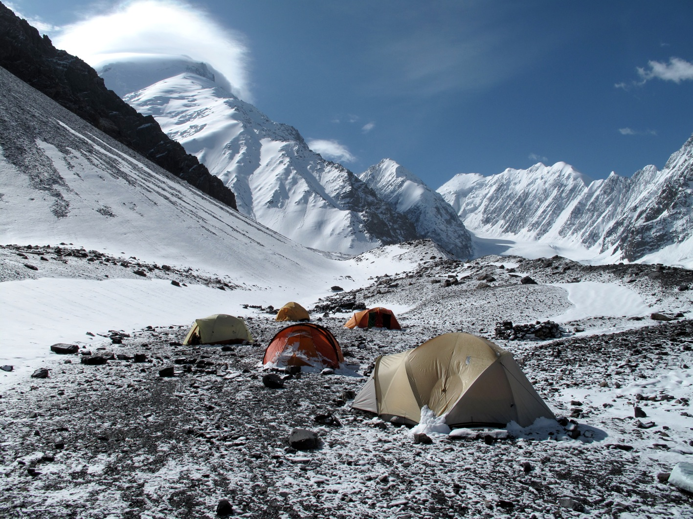 Mount Noshaq seen from the base camp (photo by Louis Meunier, July 2009)